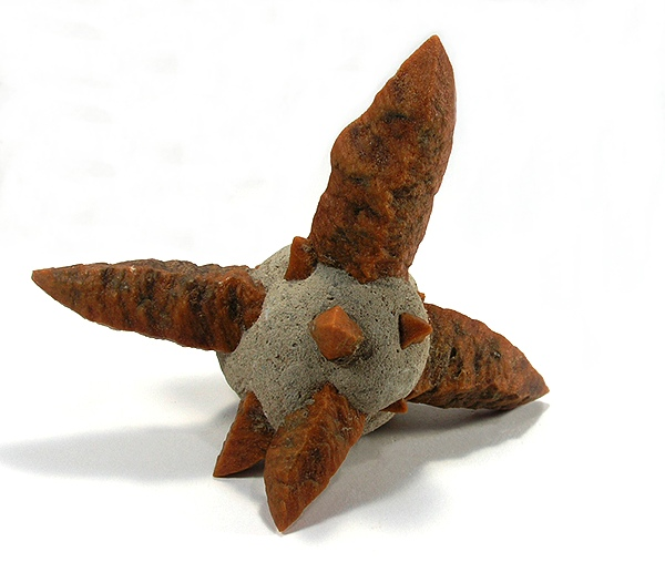 Calcite, Ikaite Locality: Kola Peninsula, Murmanskaja Oblast', Northern Region, Russia (Locality at ) Size: cabinet, 10.3 x 7.7 x 5.9 cm Calcite after Ikaite "Glendonite" This mineralogical oddball actually features 4.5 cm, orange-brown crystals of calcite (var. glendonite). Although these oddities are admittedly esoteric and hard to explain, visually they can be spectacular, like this one. Ex. Martin Zinn Collection.